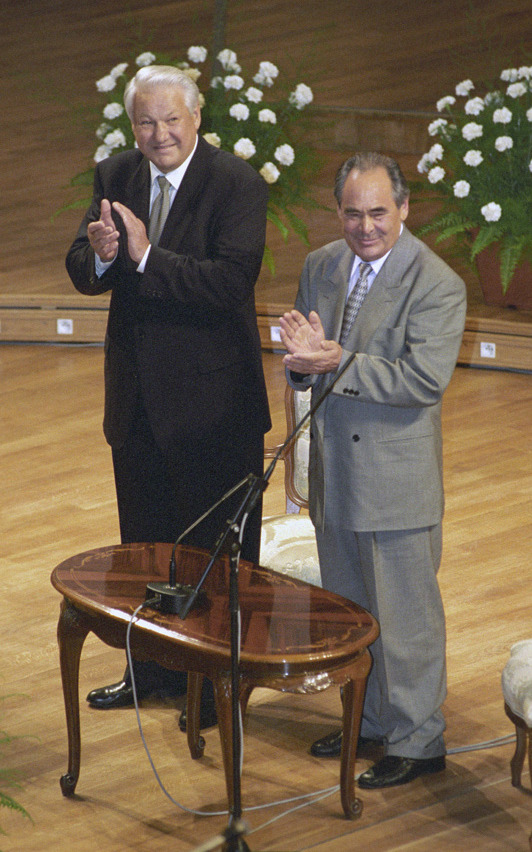 “Russian President Boris Yeltsin and Tatar President Mintimer Shaimiyev”. Russian President Boris Yeltsin, left, and Tatar President Mintimer Shaimiyev at the meeting held to open the Zhiganov Kazan State Conservatory's reconstructed concert hall during Yeltsin's working visit to Tatarstan.